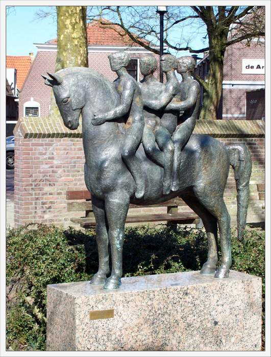 The for ´´Heemskinderen´´